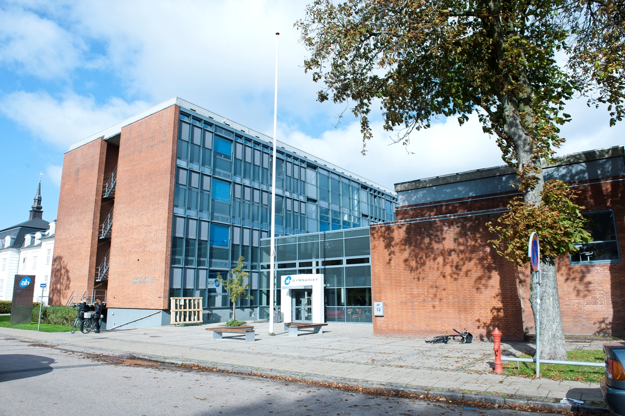 Aalborg Business CollegeDansk: Aalborg Handelsskole